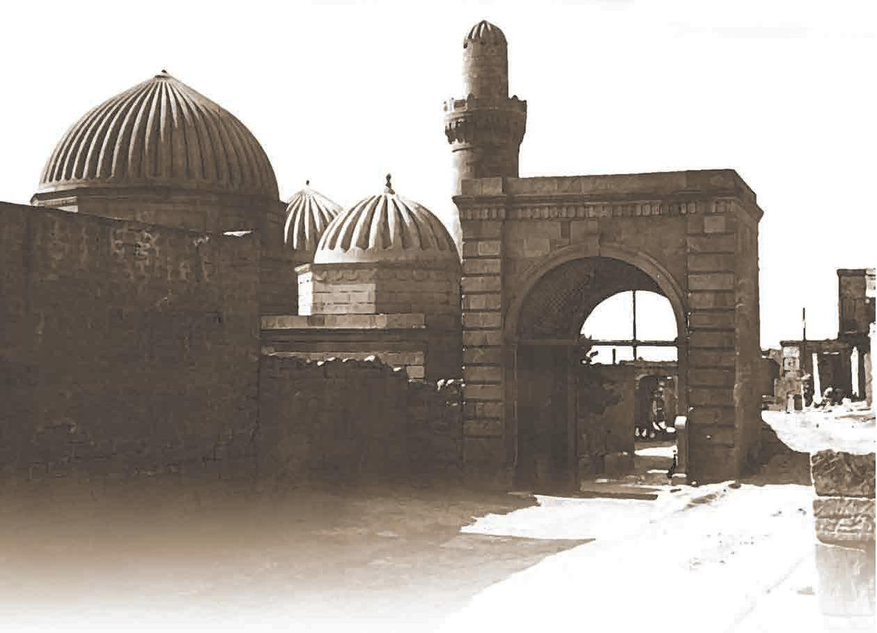 Bibi Eybat mosque in Baku